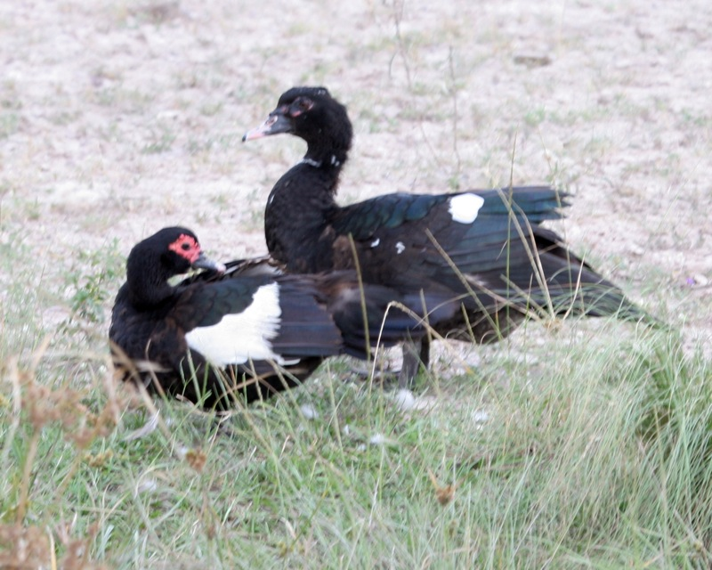 Muscovy Ducks in the Ibera Marshes, Argentina